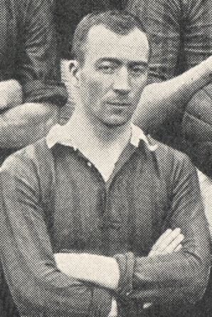 Jimmy Hartley while with Brentford FC 1905/06.